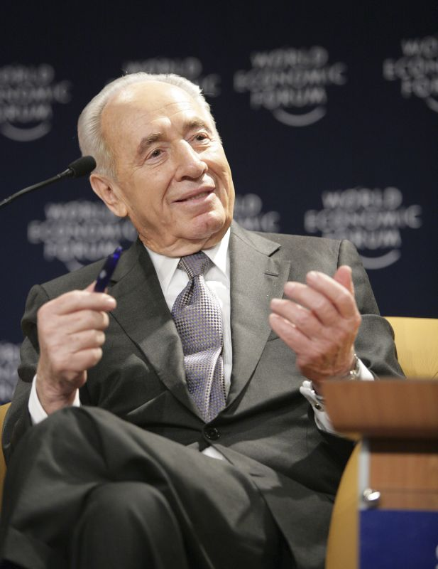 DAVOS/SWITZERLAND, 26JAN07 - Shimon Peres, Vice-Prime Minister of Israel captured during the session 'Is Freedom overrated?' at the Annual Meeting 2007 of the World Economic Forum in Davos, Switzerland, January 26, 2007.